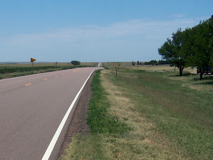 U.S. Route 40 near Wallace. Photo by Ken Gallager, July 25, 2006.